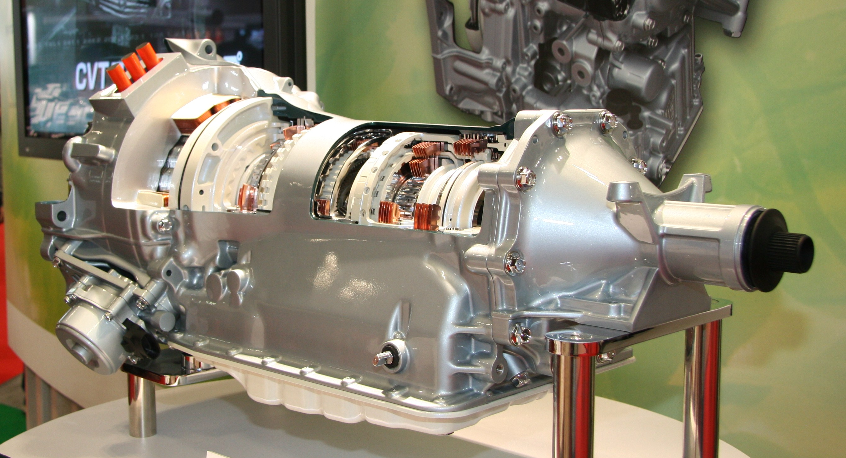 Jatco 7-speed AT for hybrid vehicle